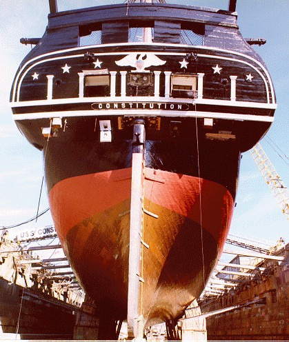 USS Constitution in drydock ca 1995.